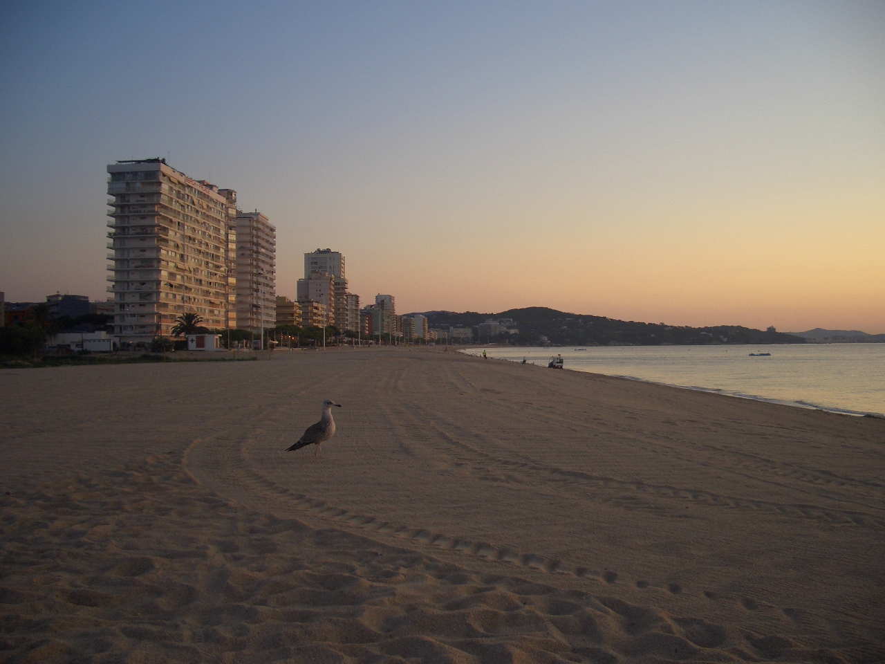 Playa de Aro, Castell-Platja d'Aro, Spain.